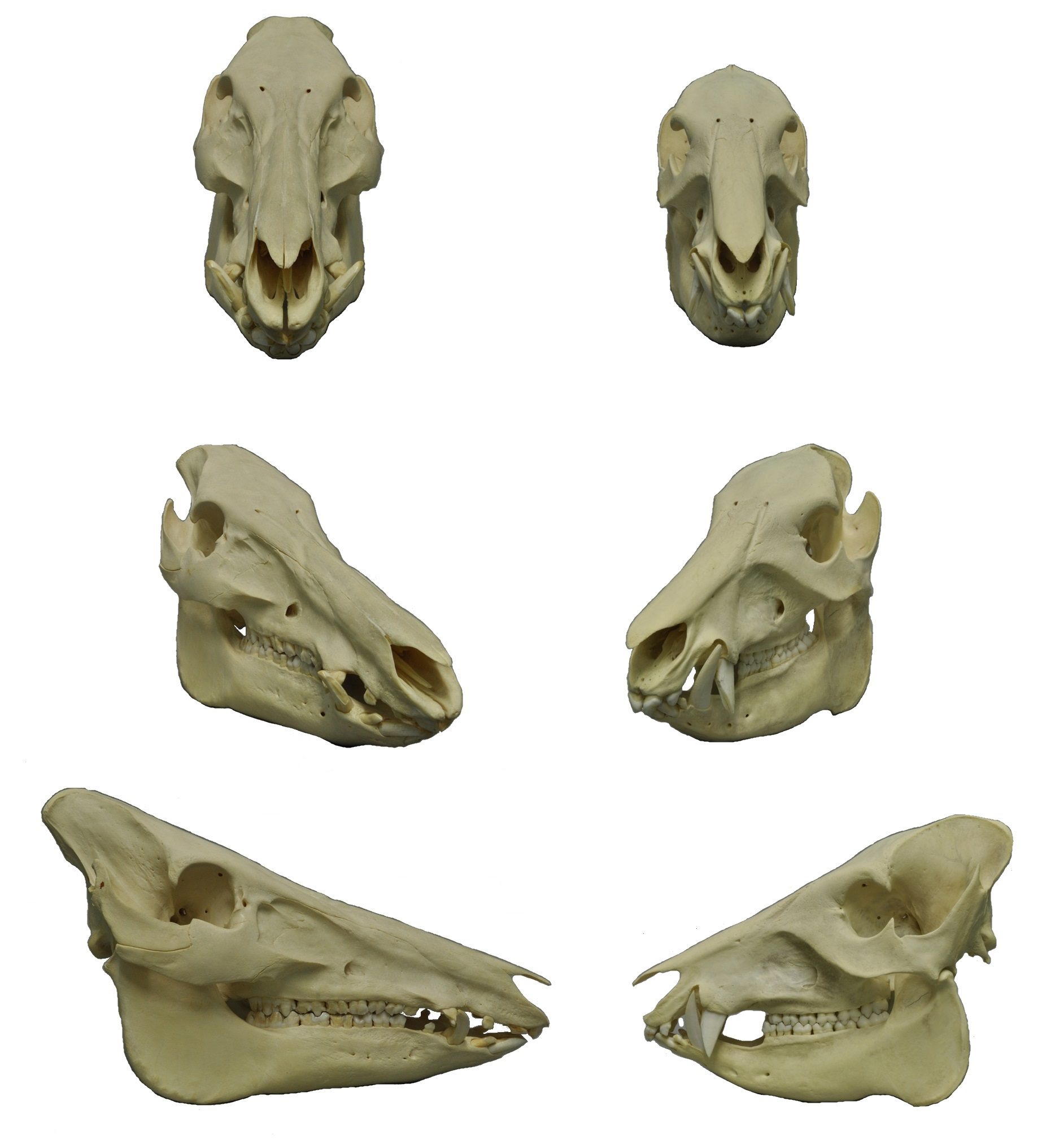 Wild boar and white-lipped peccary skulls, Coll. Museum Wiesbaden